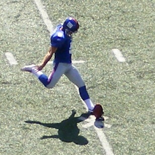 John Carney punting in 2008.